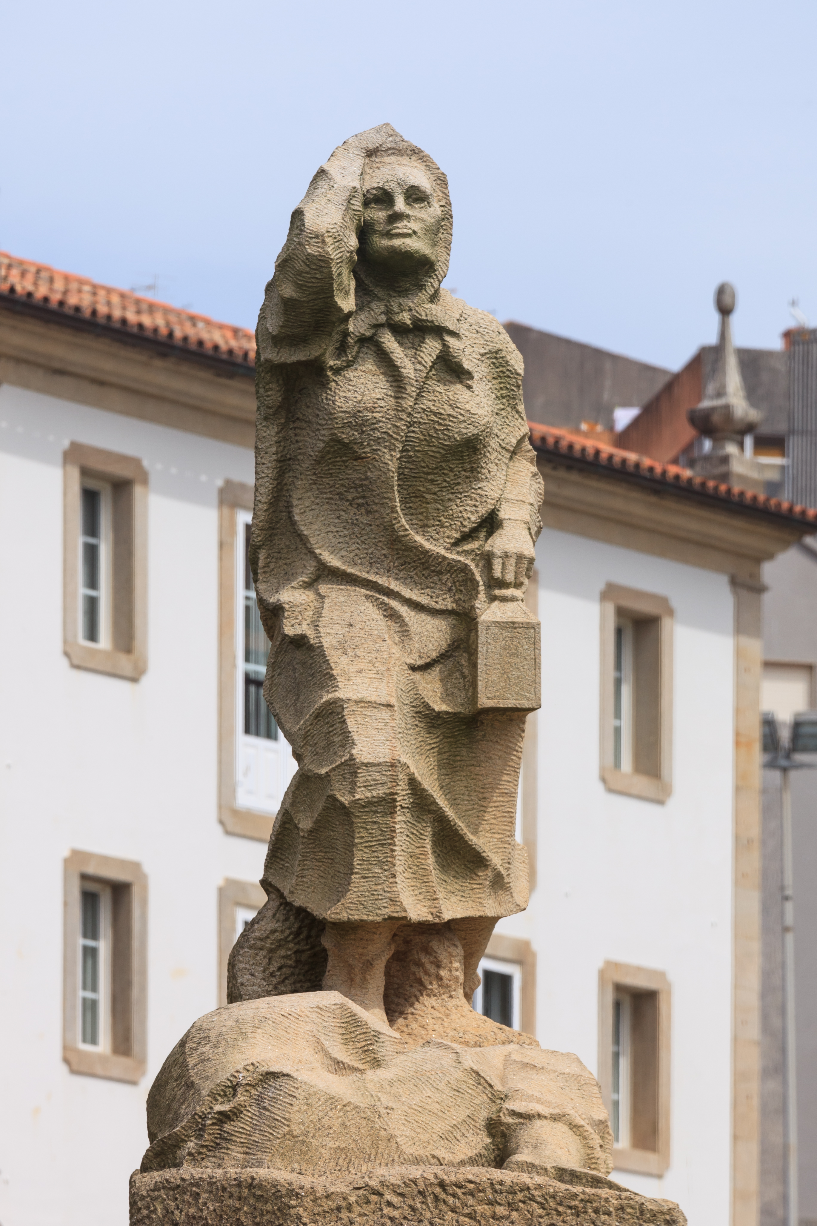 Monument to the missing sailor. A Guarda, Galicia (Spain).